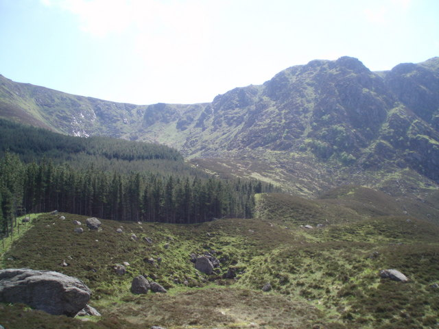 Moraine, Corrie Fee. From the foreground to the bottom of the crags are a succession of hummocky moraine which run across the corrie lip. To the left blanket forestry encroaches from Glen Doll into Corrie Fee. Behind the forestry is Corrie Sharroch.